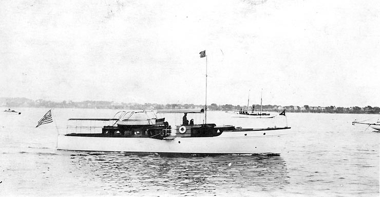 Alpha (American Motor Boat, 1911) Underway, prior to World War I. This craft served as USS Alpha (SP-586) in 1917-1919. U.S. Naval Historical Center Photograph.